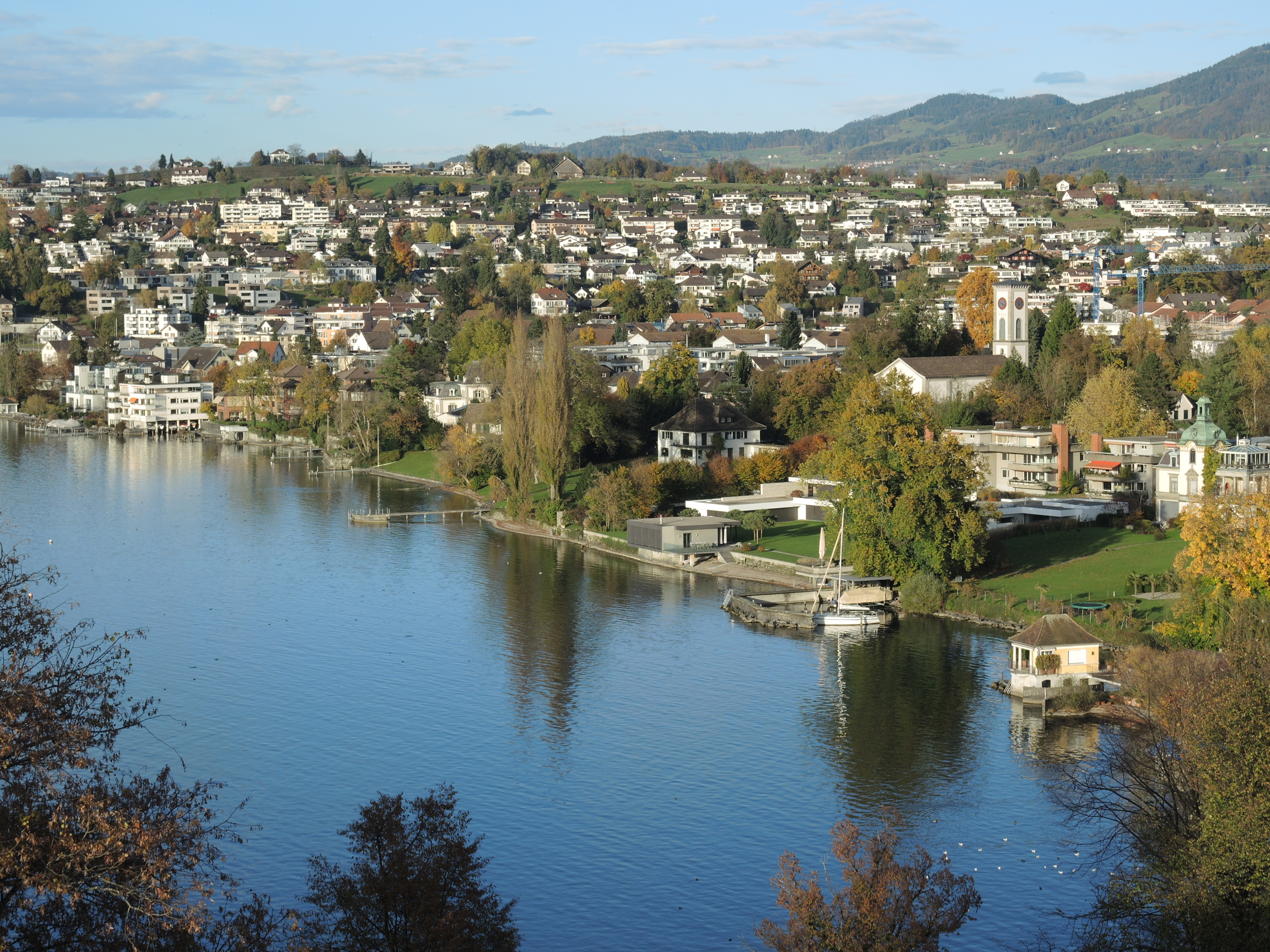 Kempraten on Zürichsee in Switzerland, as seen from the Lindenhof hill in Rapperswil (Switzerland), Bachtel in the background.